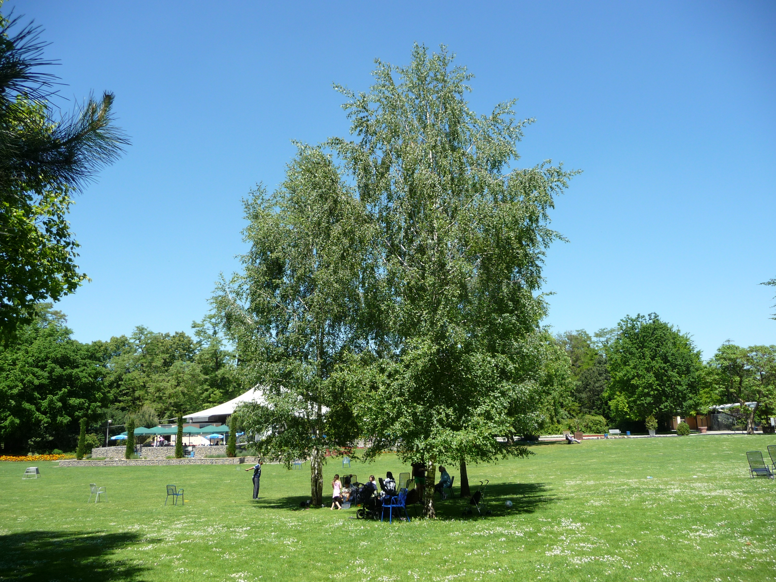 Herzogenriedpark Mannheim